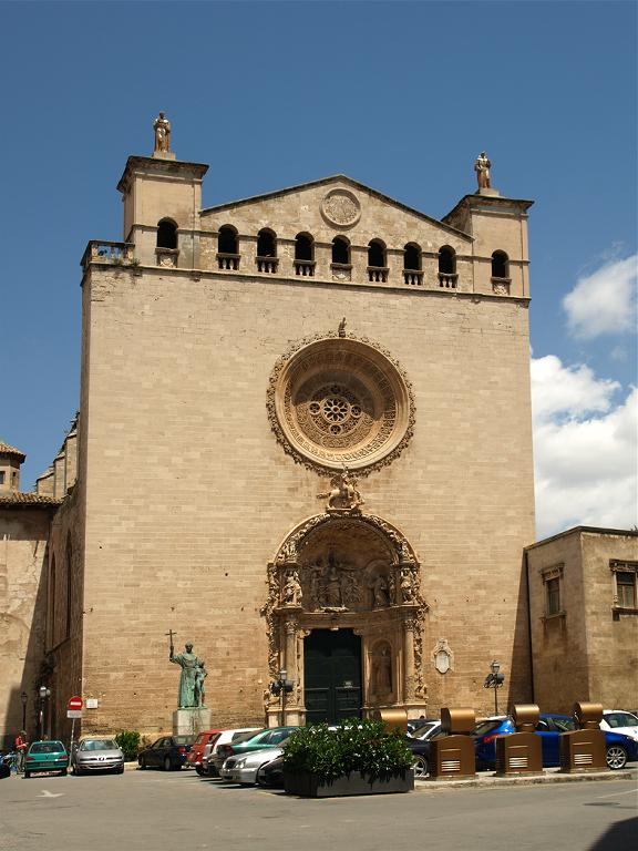 Mallorca (Spain), Palma, monastery-church San Francisco, photo 2008